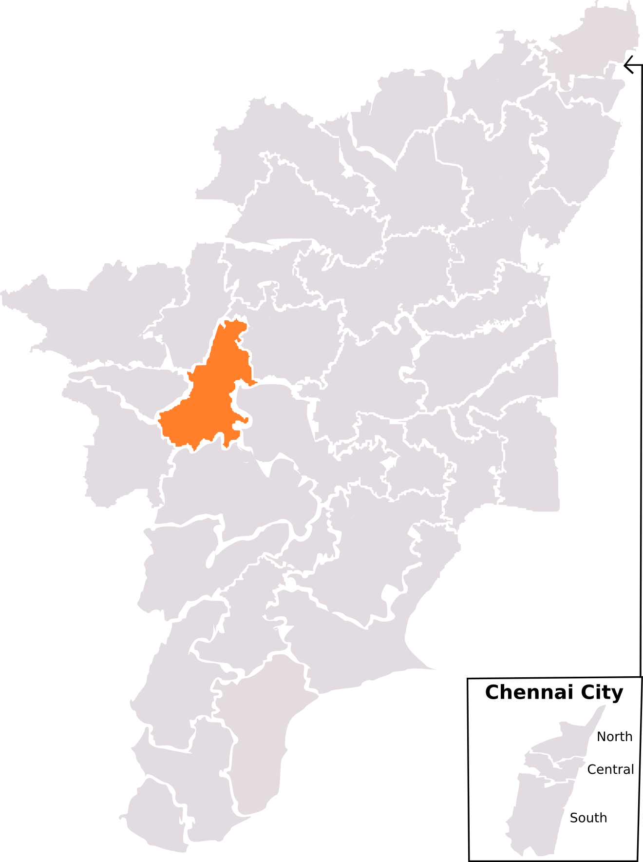 Lok Sabha Election map labeling each constituency for individual pages for Tamil Nadu after delimitation starting 2009 election. Map is based on ECI drawn map from